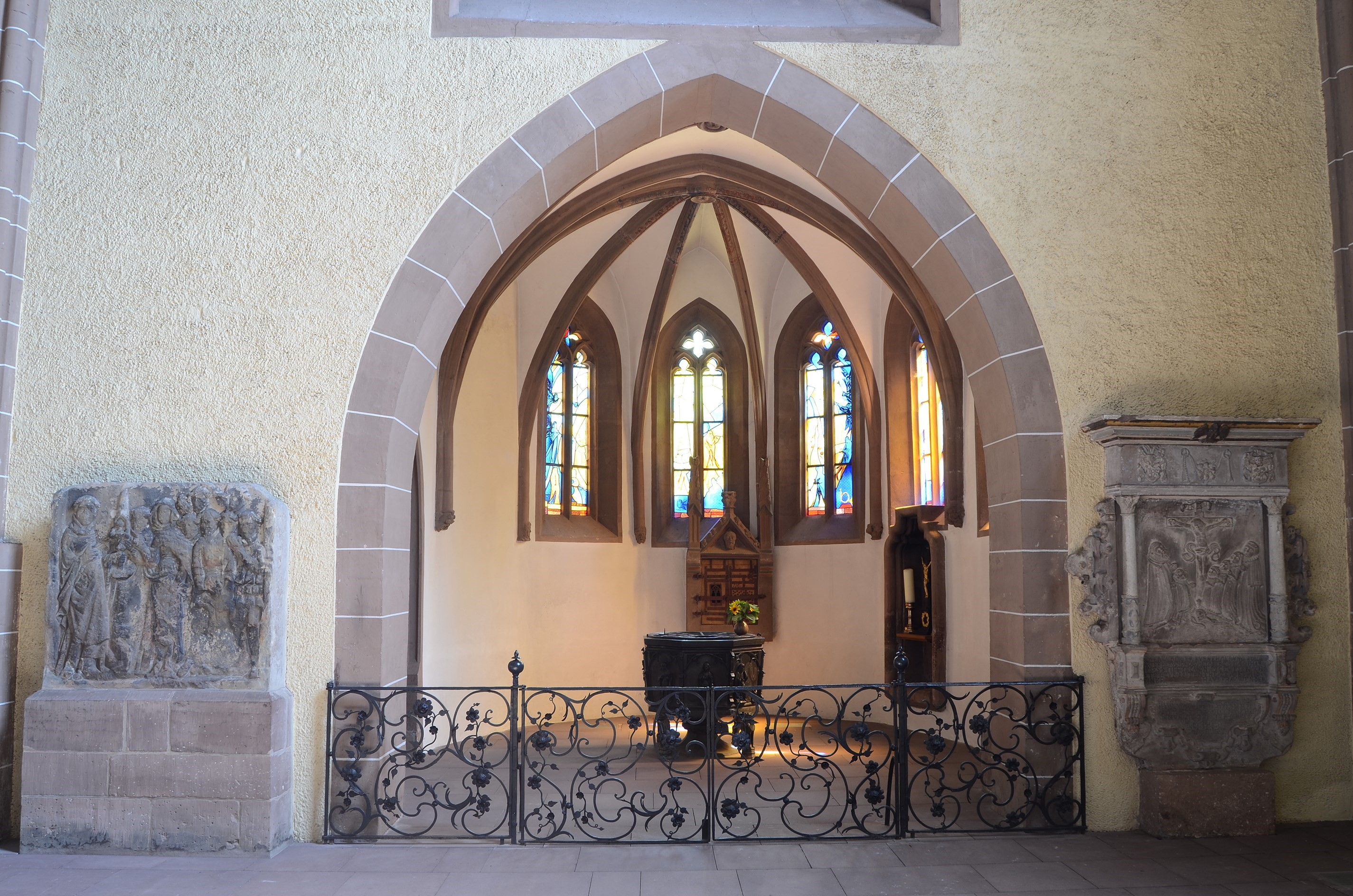 Einbeck (Lower Saxony, Germany) – Lutheran Saint Alexander Church – Holy Blood Chapel in the right aisle This is a photograph of an architectural monument.It is on the list of cultural monuments of Einbeck This photograph was taken with a Nikon D7000